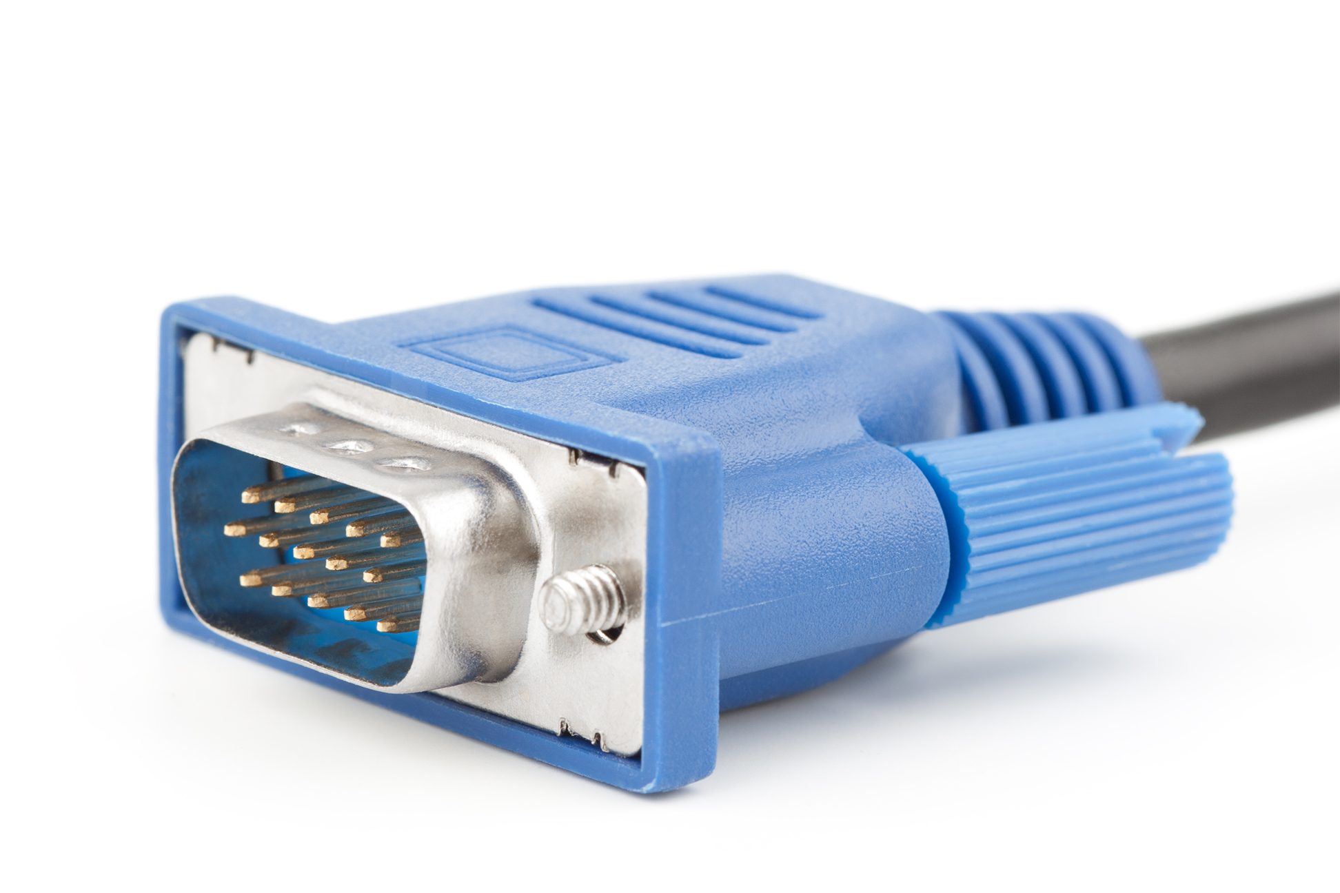 Male VGA connector on cable